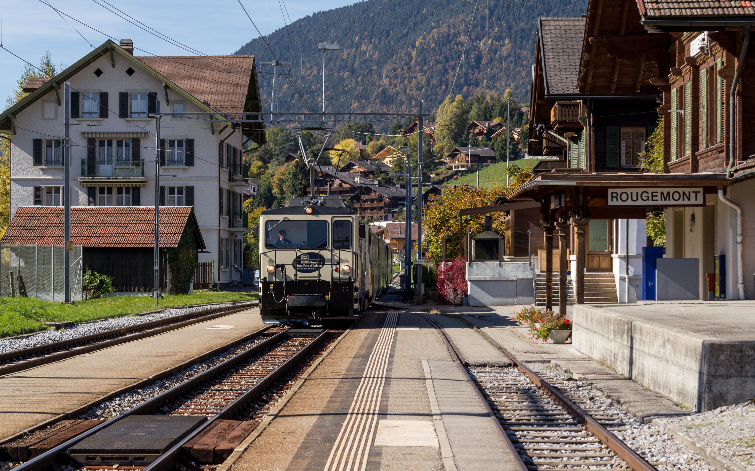 MOB train arriving Rougemont station